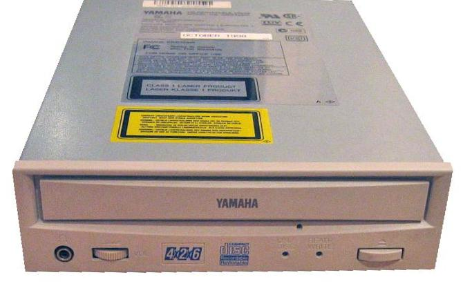 Compact disc drive (CD-RW recorder)